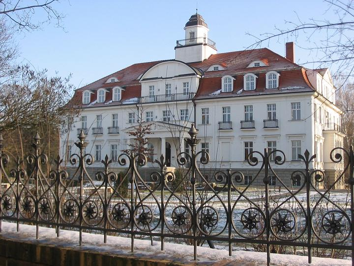 Castle Genshagen, Brandenburg, Germany